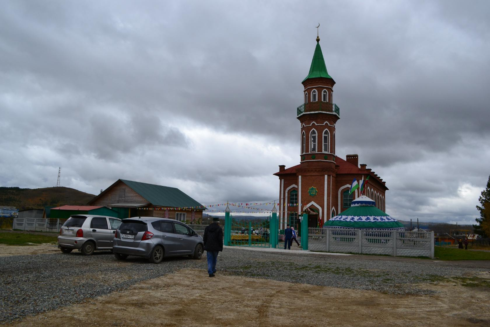 Russia. Verkhny Ufaley